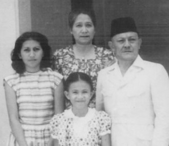 Sam Ratulangi with his wife Maria Tambajong and two of their daughters.